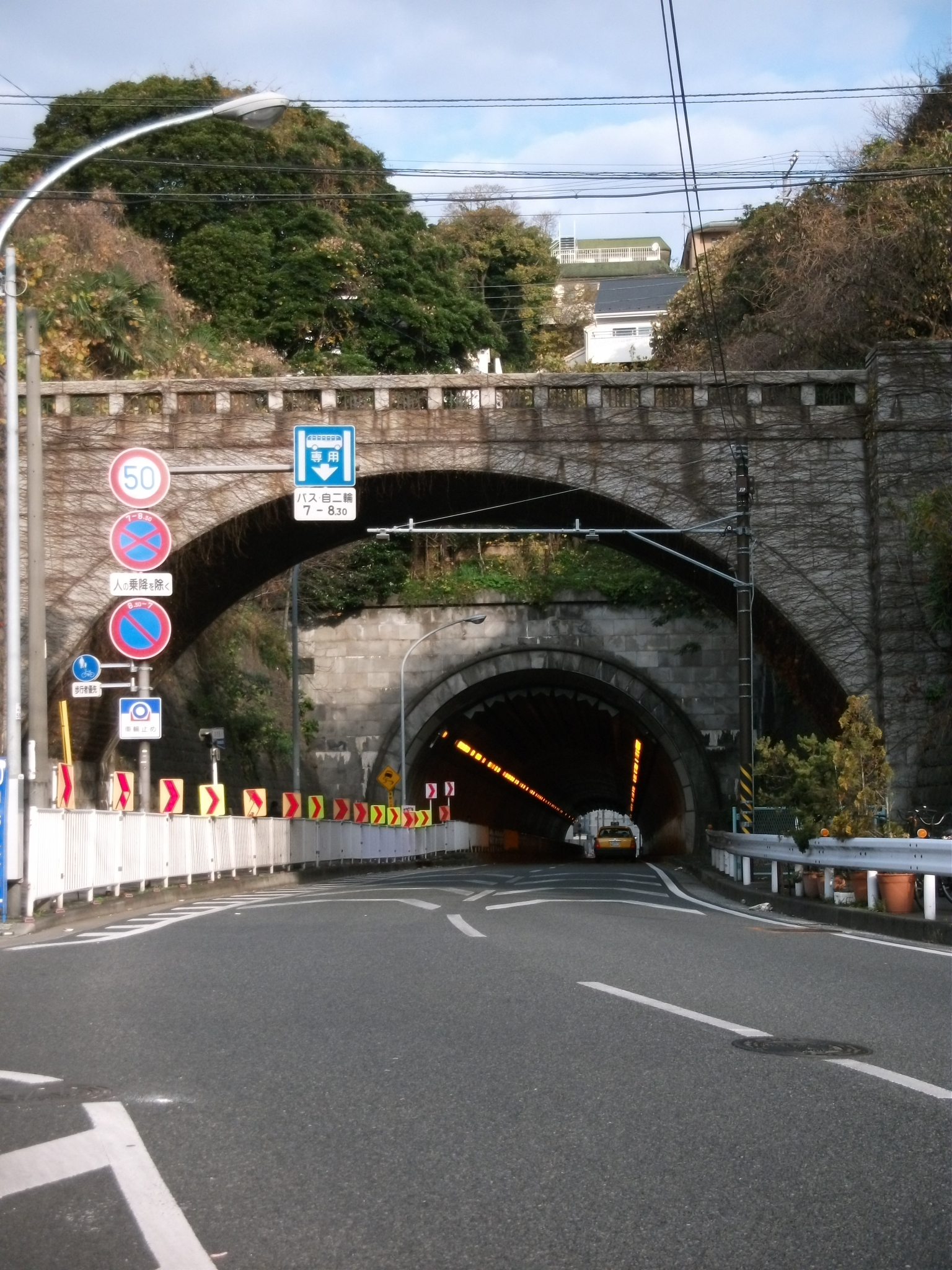 Yokohama_Yamate-tunnel